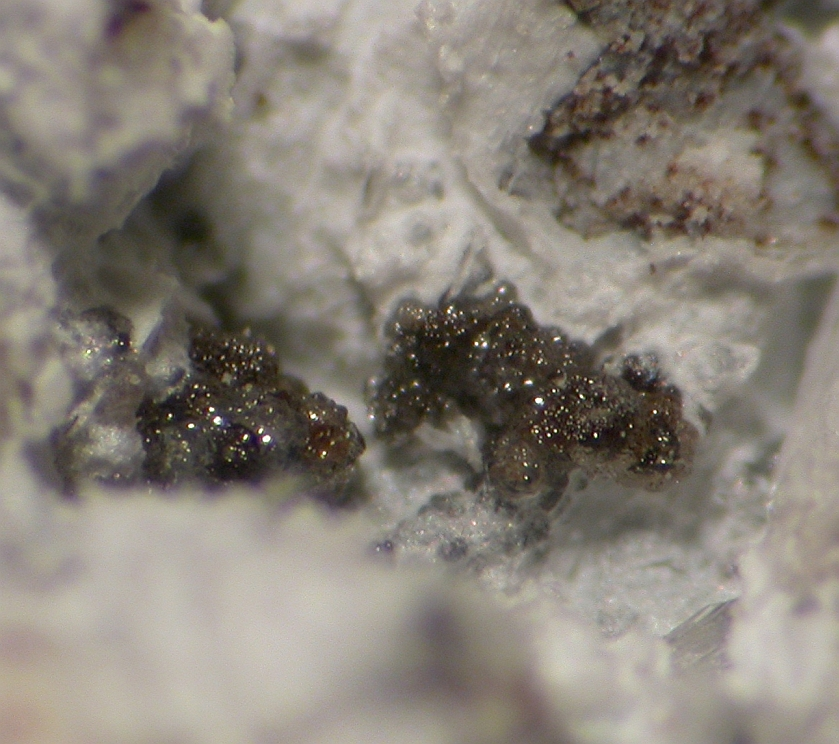 Katoite Locality: Caspar quarry, Bellerberg volcano, Ettringen, Mayen, Eifel, Rhineland-Palatinate, Germany Clear globular katoite on magnetite. Field of view 3 mm. Specimen and photo Leon Hupperichs.